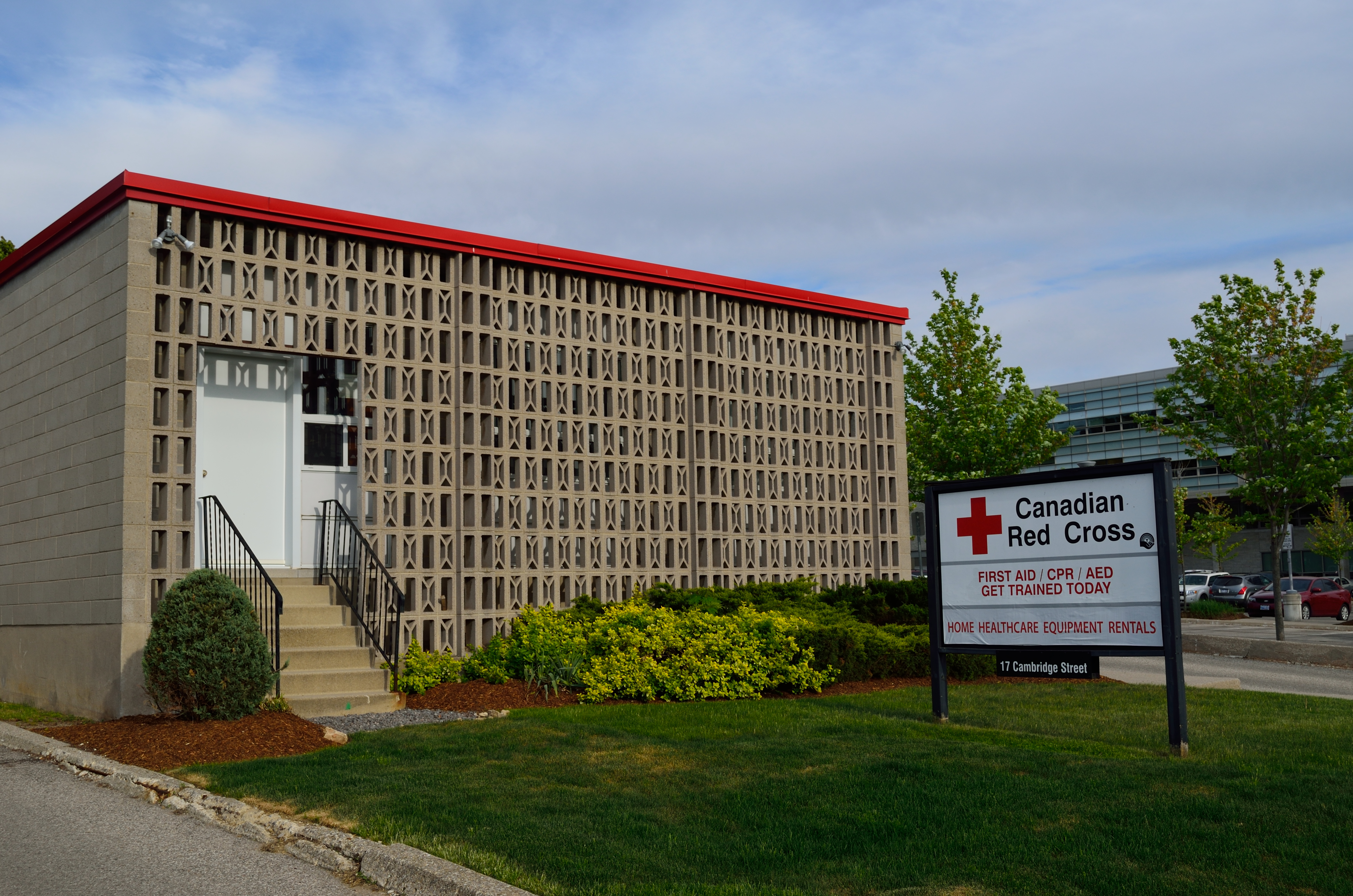 Canadian Red Cross in Cambridge - Address: 17 Cambridge Street, Cambridge, Ontario